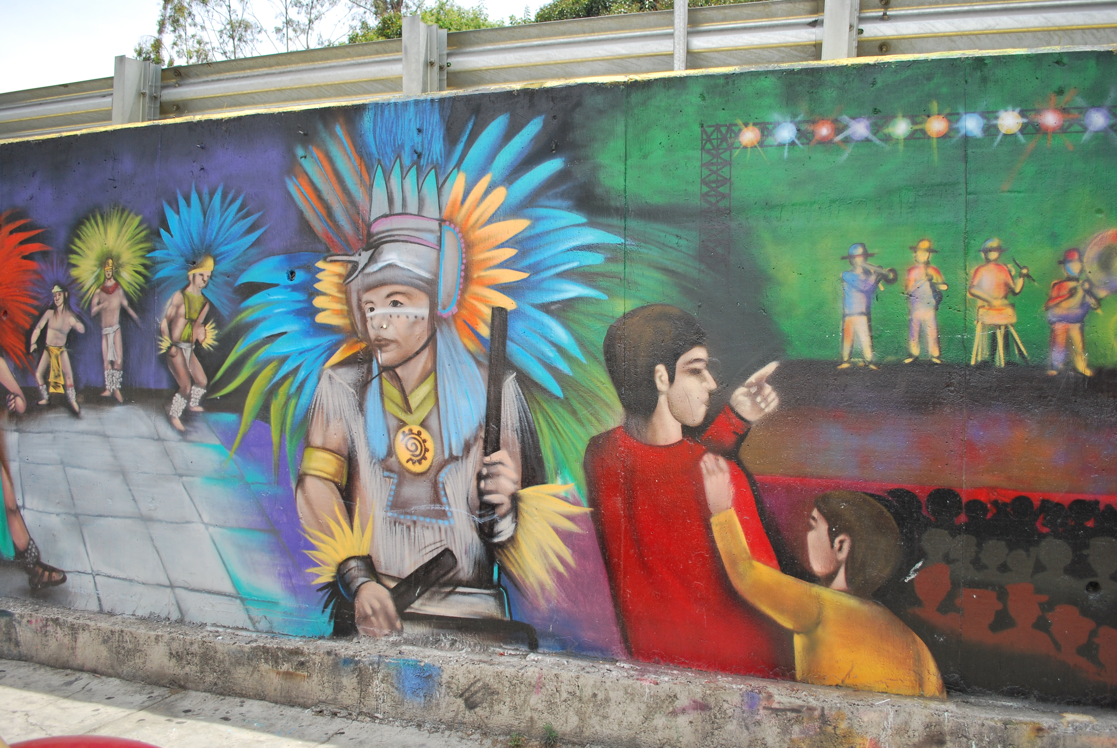 Concheros dancers on grafitti mural in San Andres Totoltepec, Tlalpan, Mexico City